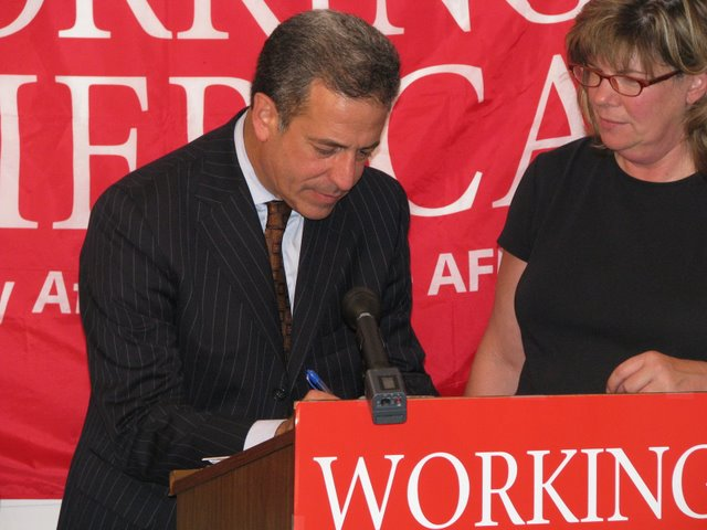 WI: Sen. Russ Feingold signs down as a Working America member, August 4, 2008 Feingold is shown with Wisconsin State AFL-CIO Executive Vice-President/Political Director Sara Rogers at the Working America - Wisconsin office in Milwaukee.